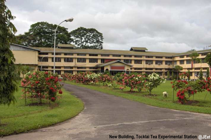 Jorhat